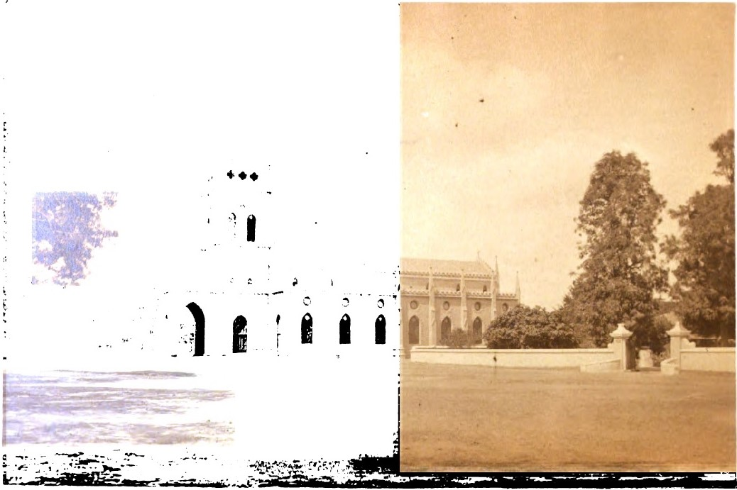 St. Andrew's Kirk, Bangalore (1867), from Professional Papers on Indian Engineering: Volume IV